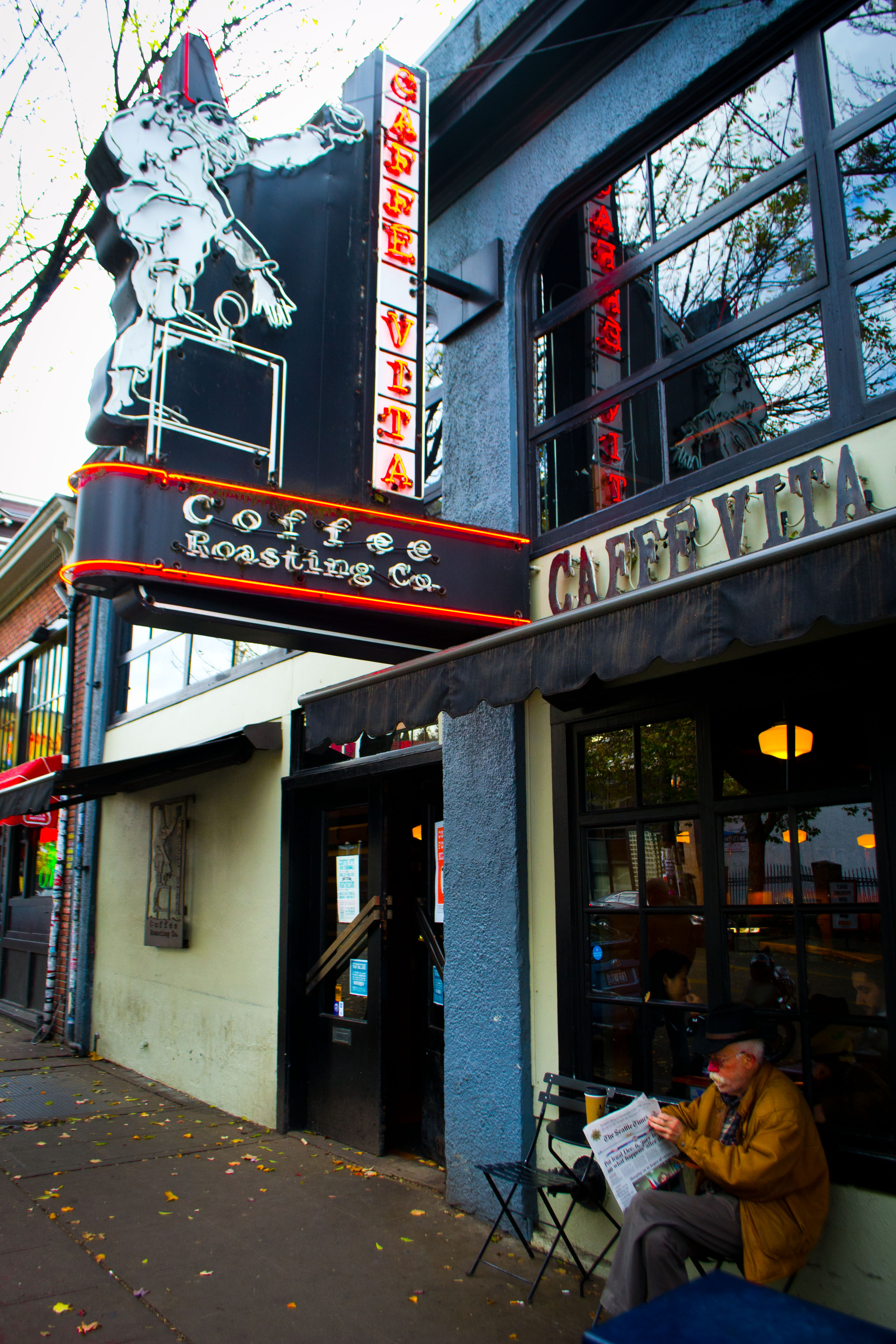 Caffe Vita on Seattle's Capitol Hill is a boutique roaster and coffee beverage purveyor.